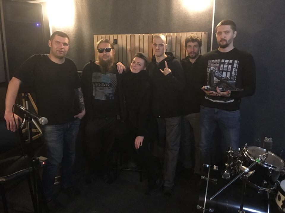 Buli dlya babuli band posing